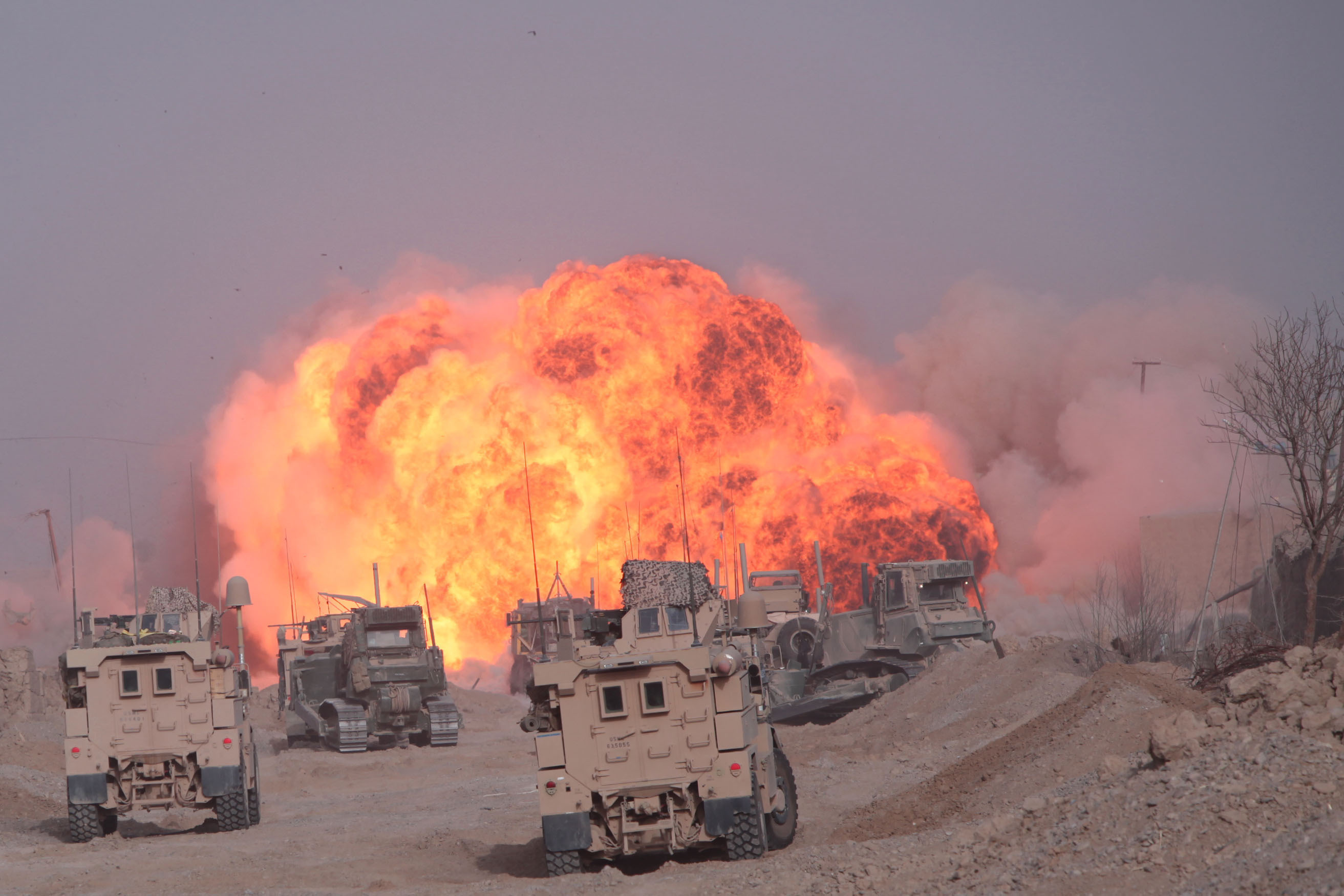 During the Battle of Sangin (2010 - 2011)